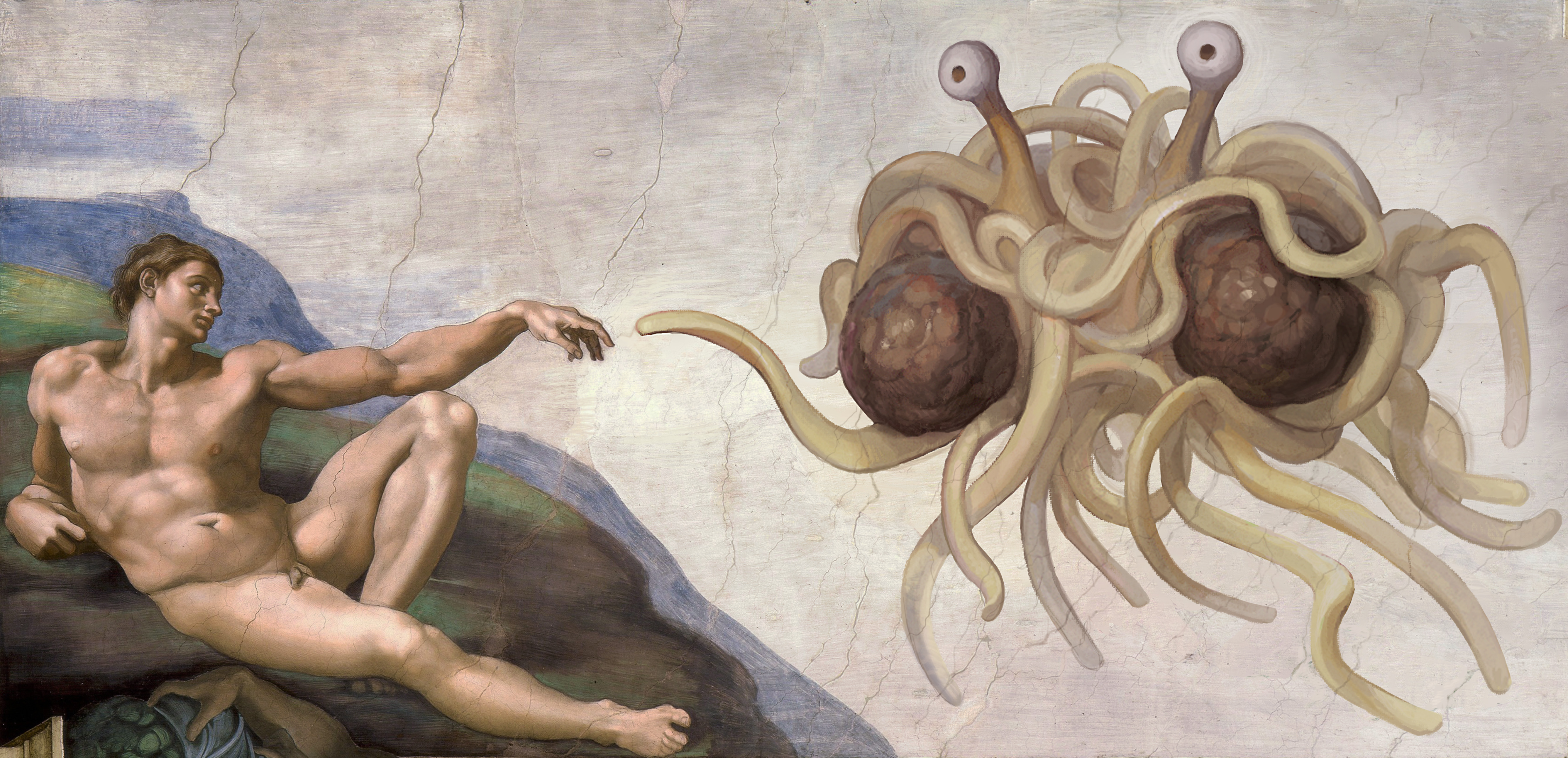 Touched by His Noodly Appendage, the parody of Michelangelo's Creation of Adam has become an iconic image of the Flying Spaghetti Monster.